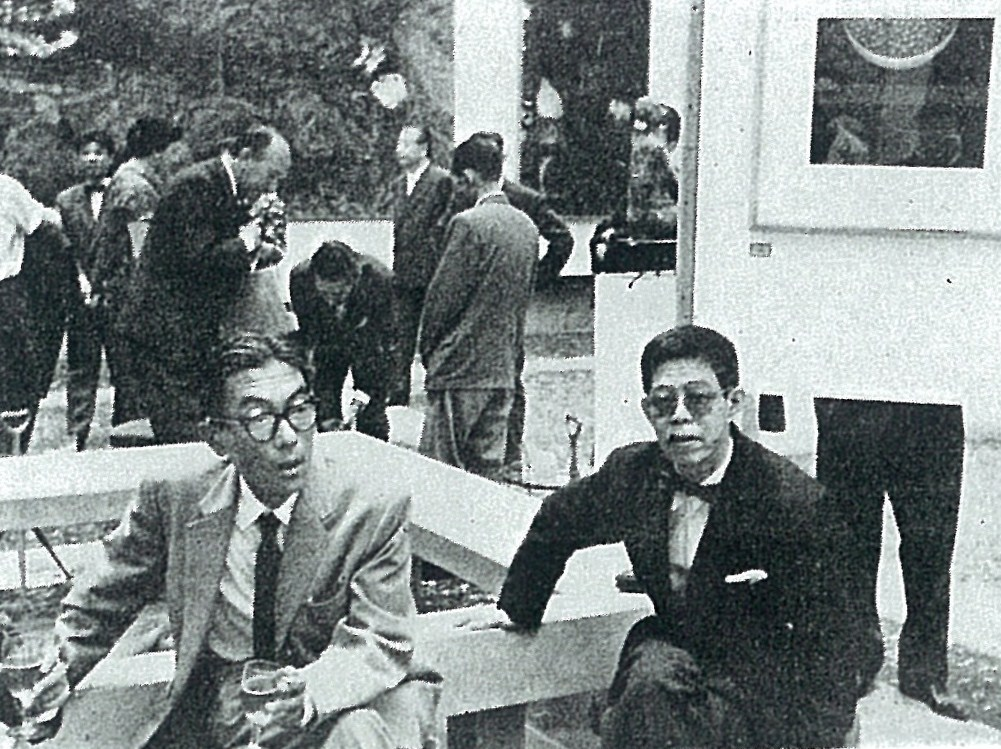 (Right, black jacket and bow tie)Key Sato is a Japanese painter. (Left, gray suit and necktie) Eiji Usami Japanese art critic.